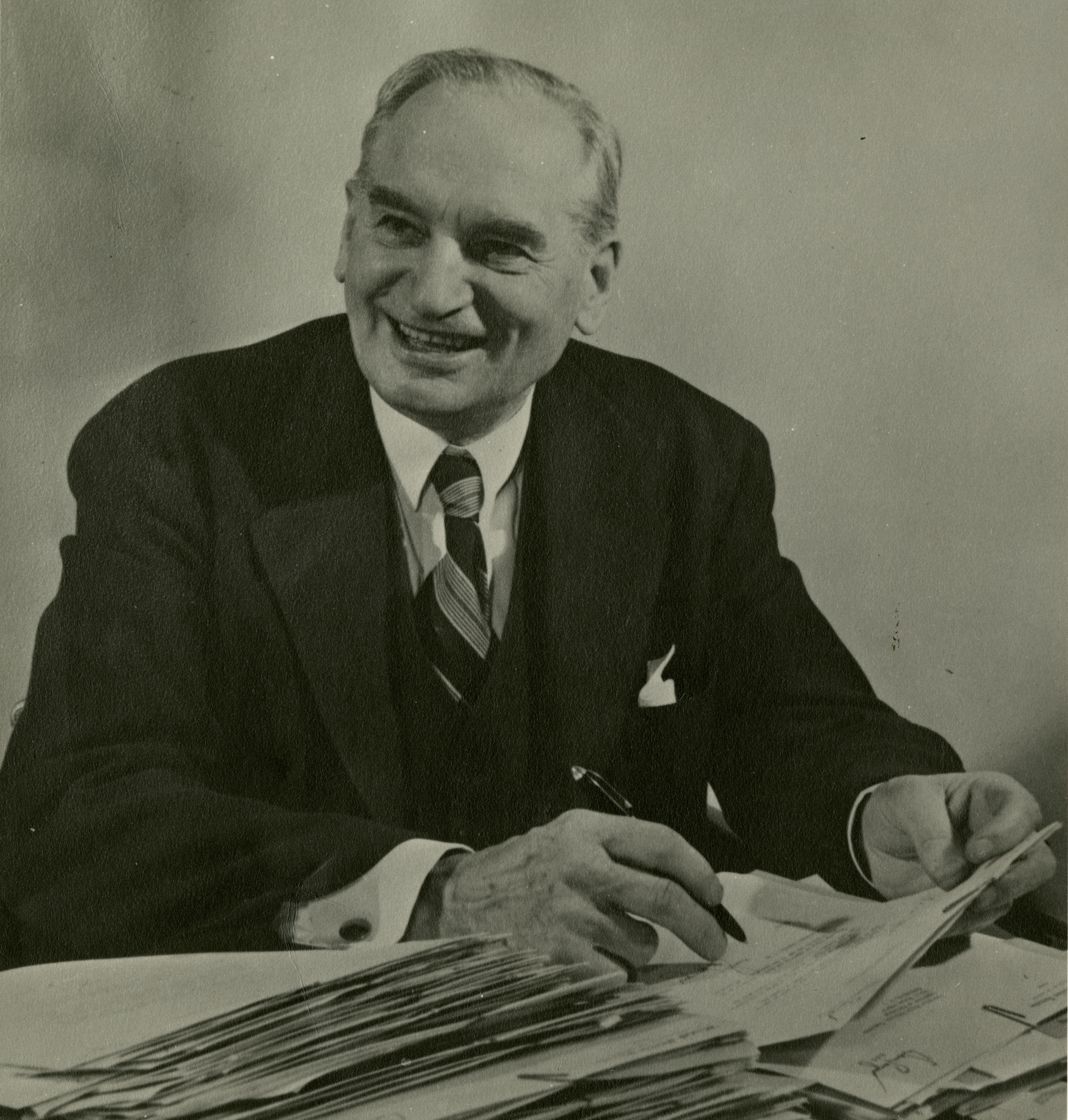 former Senator William Langer of North Dakota.